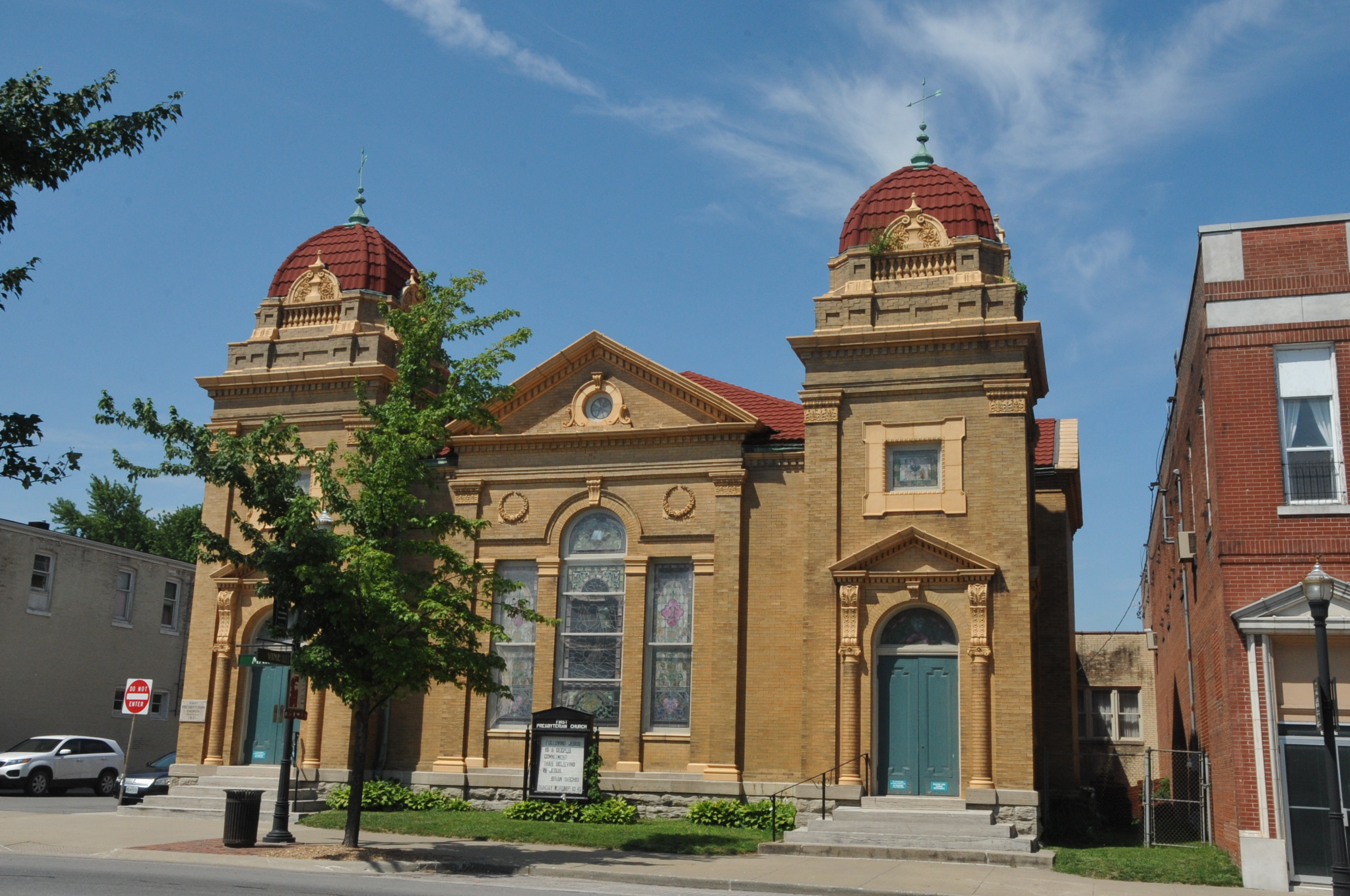 FIRST PRESBYTERIAN CHURCH, BOONVILLE HISTORIC DISTRICT D; THE BUFF BRICK STRUCTURE BUILT IN A SPANISH BAROQUE STYLE HAS CORNER TOWERS AND CLASSICAL MOTIFS. IT WAS BUILT CIRCA 1904 ON THE SITE OF AN 1872 CHURCH WHICH HAD BEEN TORN DOWN